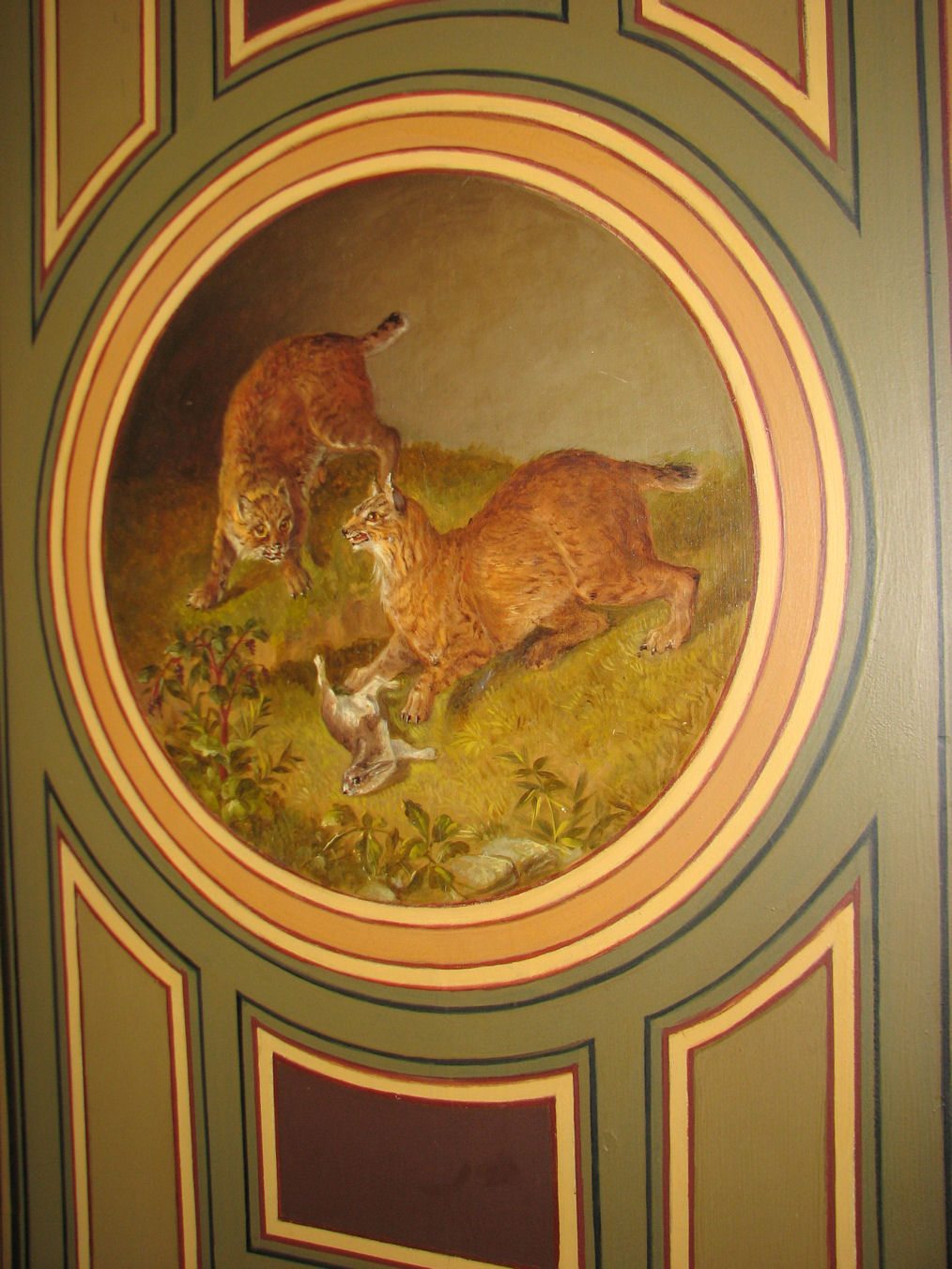 Photograph in detail of two bobcats in the Brumidi Corridors in the United States Capitol, taken by Rebel At|, on June 23rd, 2007.